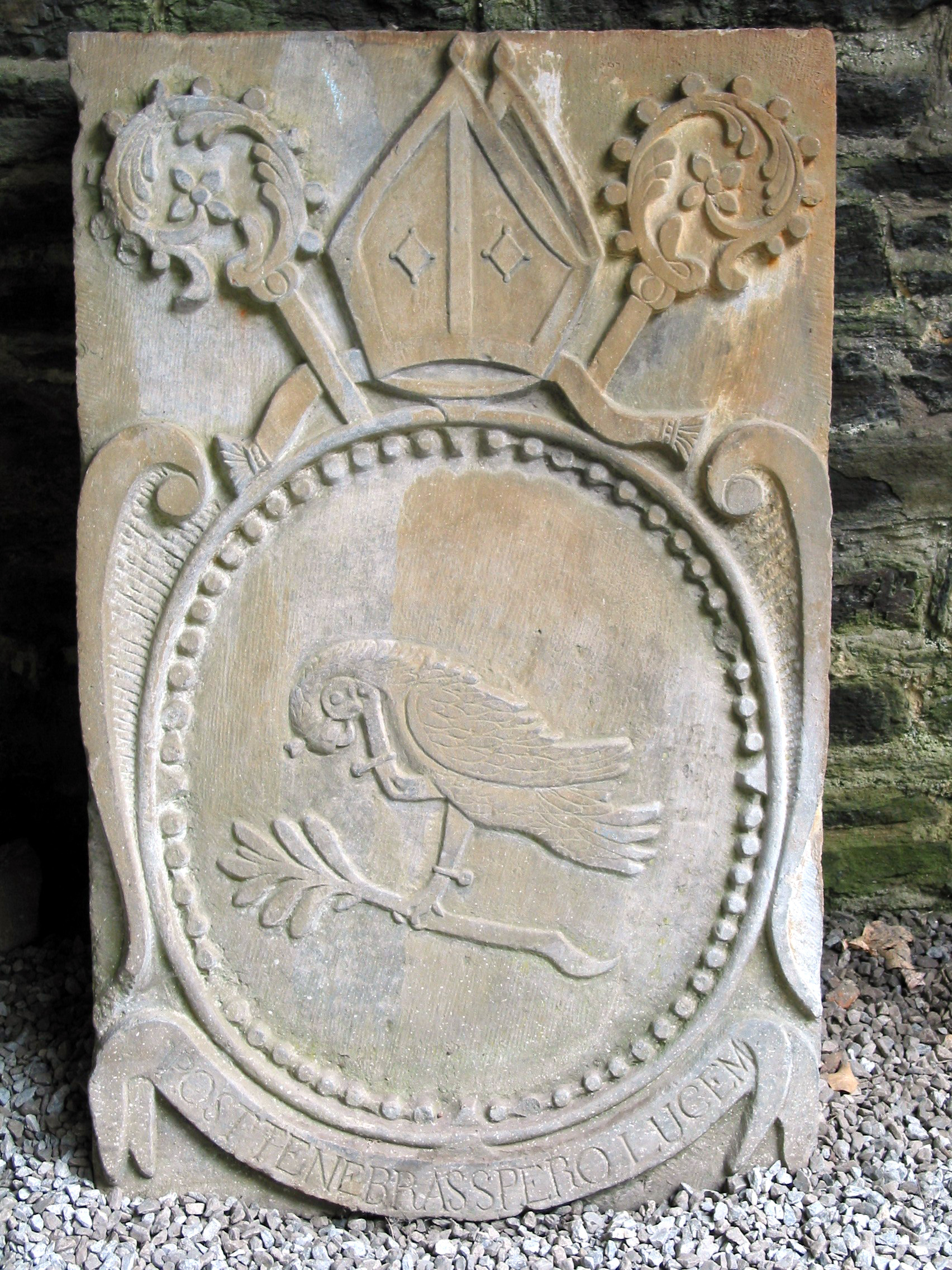 Villers-la-Ville (Belgium), carved stone with the coats of arms of the Jacques Hache abbot (XVIIIth century).